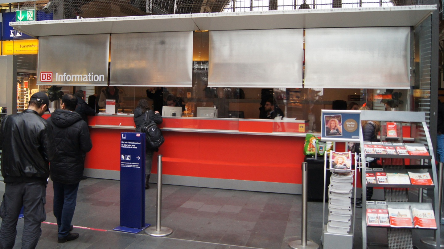 DB Information, information counter in Frankfurt Hbf (main station)